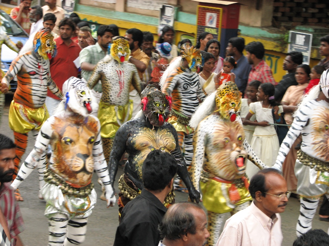 Puli Kali, an art form associated aith the Onam festival in Kerala.